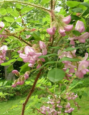 Bristly locust Robinia hispida, photo taken 2005 Apr 21 in Atlanta, GA.